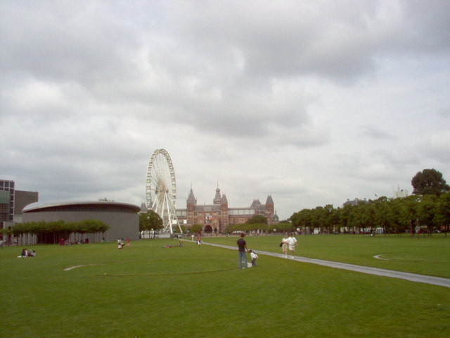 This is a view of Museumplein in the opposite direction. Now the Concert Building is behind me and in the distance you can see the Rijksmuseum.